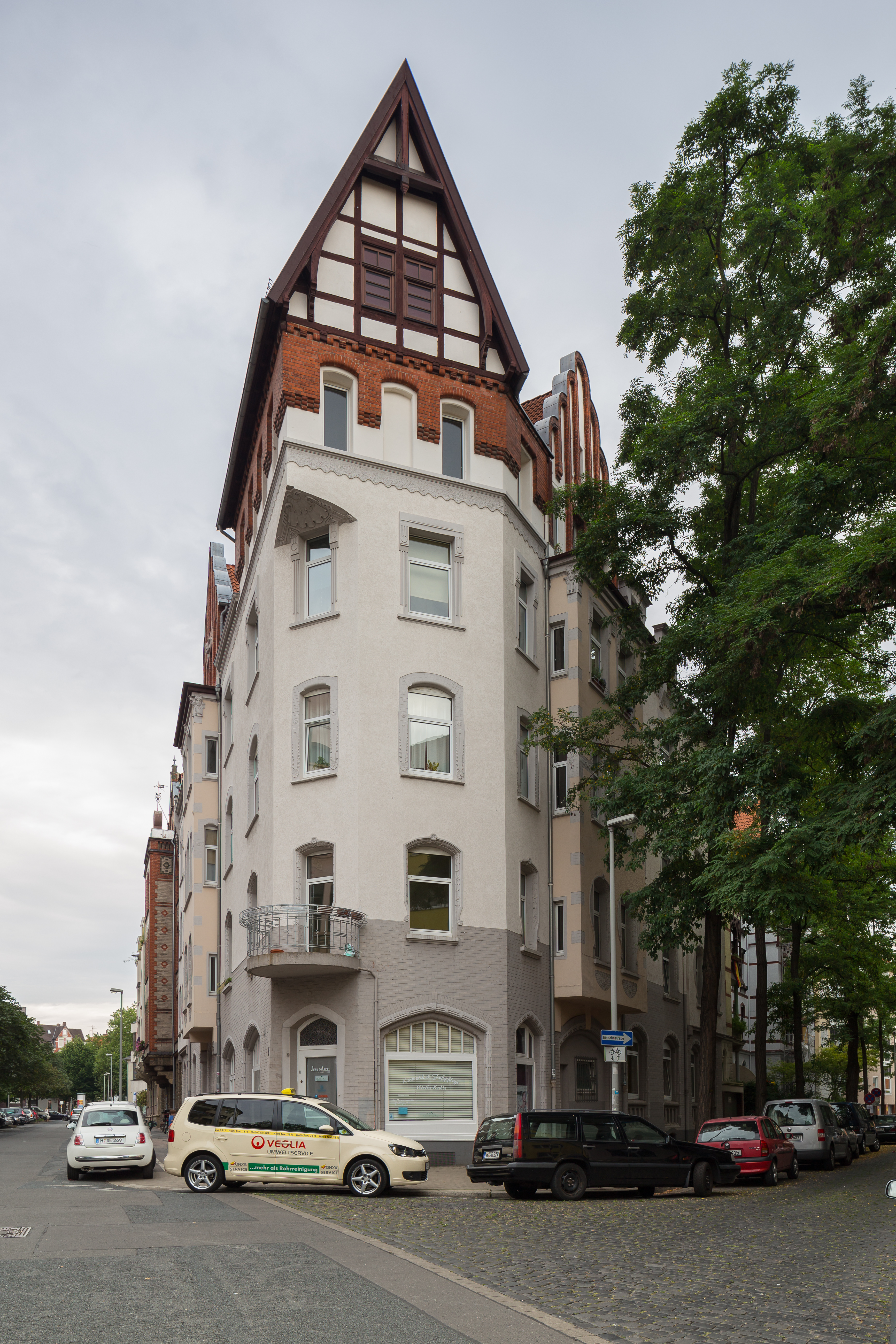 Apartment house located at Minister-Stueve-Strasse (left) and Jacobsstrasse (right) in Linden district of Hanover.